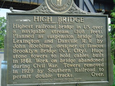 High Bridge Historical Marker (1) Taken by JD Mackiewicz